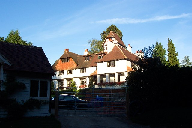 Hook Heath. Hook Heath is covered in large houses, taking advantage of the raised elevation which offers views towards the North Downs. This is one of the more substantial ones.